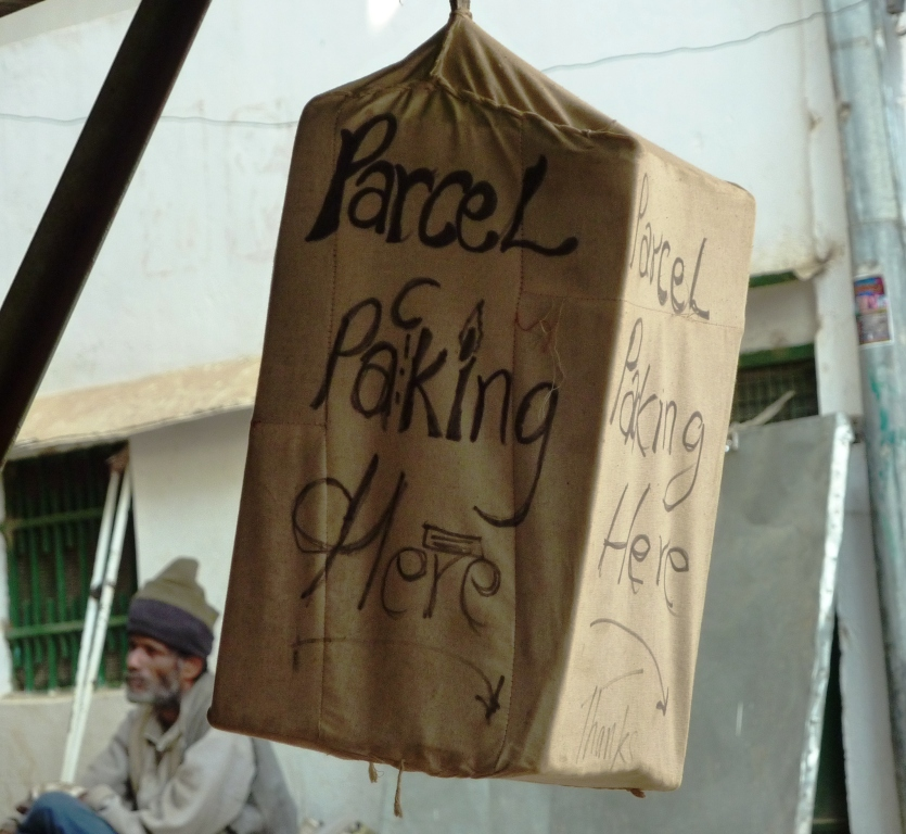 I took this photo on a trip back to India in 2010. It was hanging outside a small shop where packages were sewn up in hessian before being taken to the Post Office for mailing.